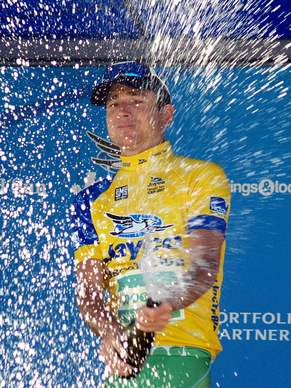 Leader of the 2007 Herald Sun Tour, Australian cyclist Matt Wilson sprays champagne on the podium following Stage 5, Wangaratta, Australia.